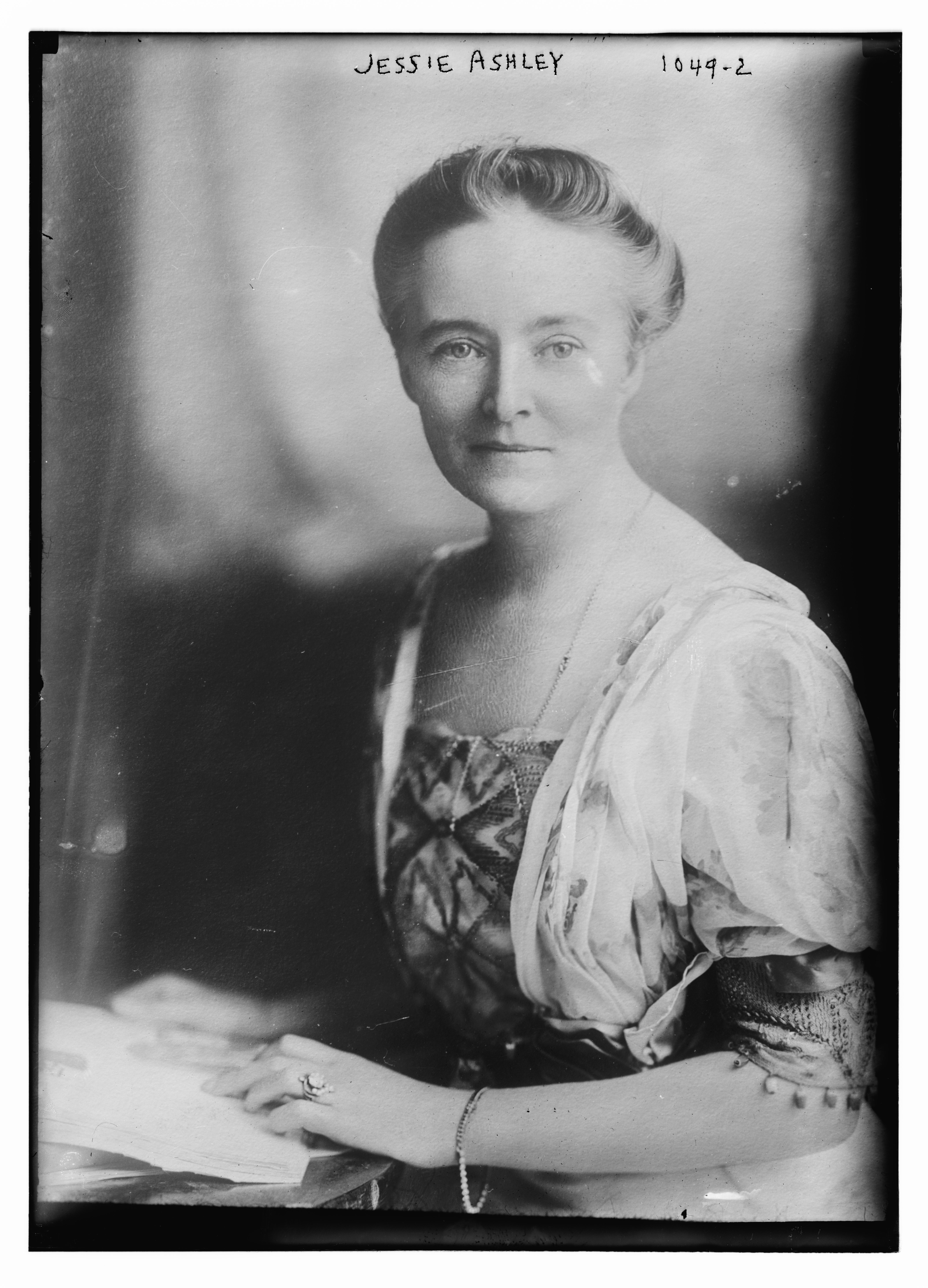 Title: Jessie Ashley Abstract/medium: 1 negative : glass ; 5 x 7 in. or smaller.